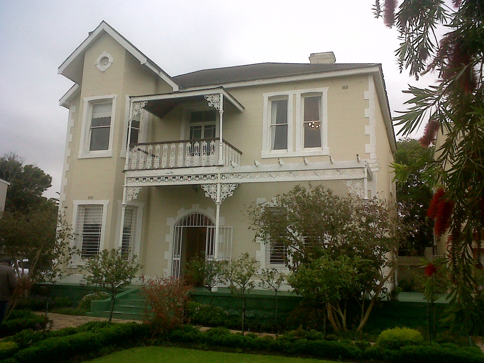 These two impressive double-storey dwelling-houses with their Edwardian and Victorian features were erected in 1910 by George Thomas Hopkins. This media shows a South African Protected Site with SAHRA file reference 9/2/012/0016.